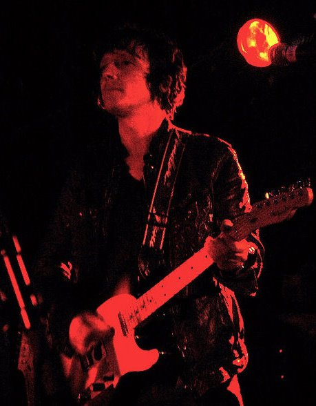 live at Spacelands Los Angeles